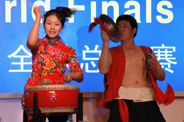 Picture from the Opening Ceremonies to the ACM ICPC 2005.